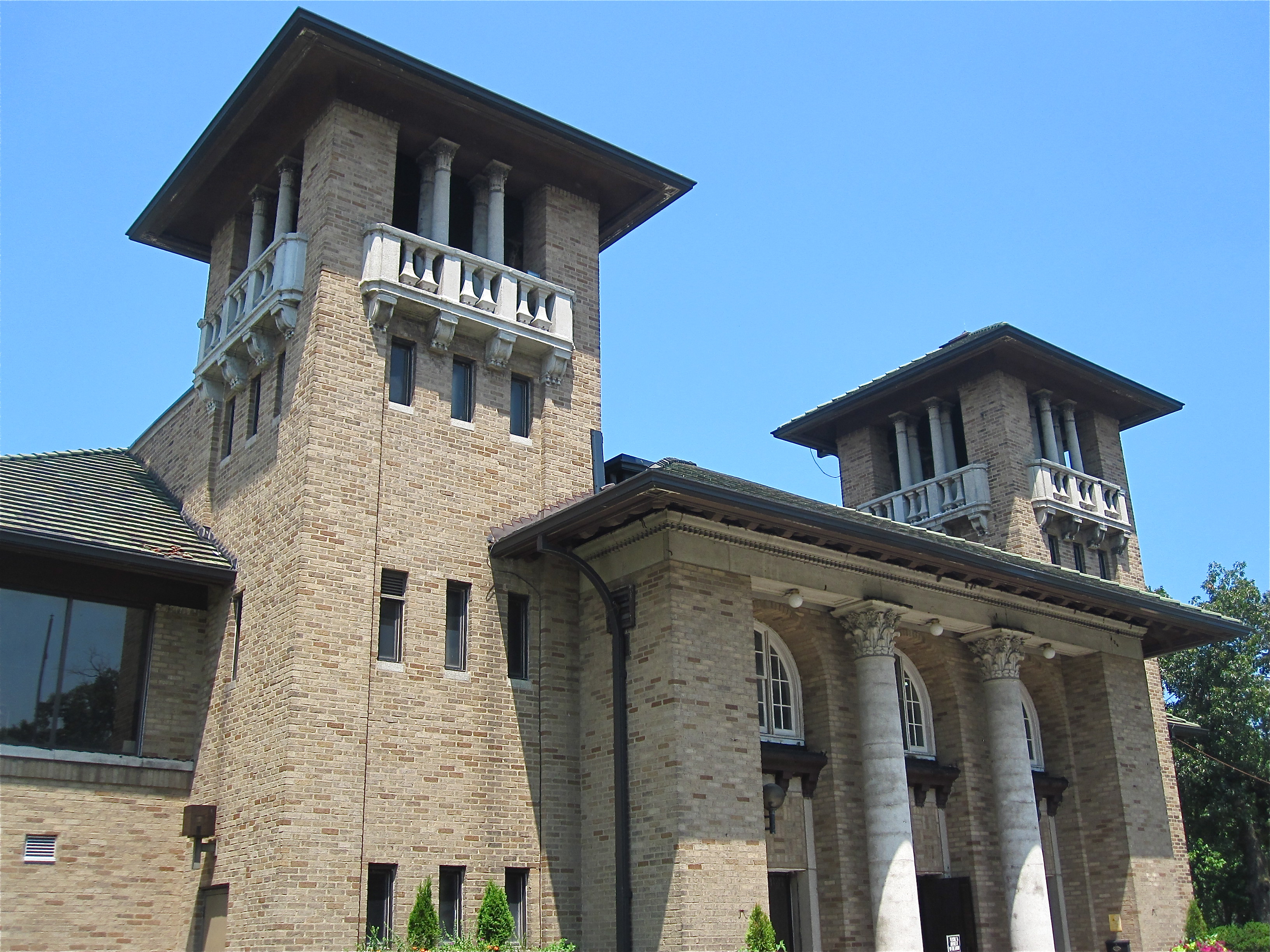 Gary, Indiana Architect: George W. Maher and Sons Recreation pavilion built on a lagoon in the Grand Calumet River at a cost of $350,000. Renovated in 1966, the building is still a popular site for all sorts of events, as I saw when I was there.